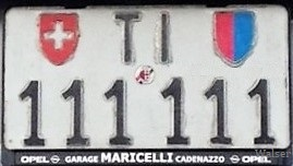 Ticino Kontrollschild 111111